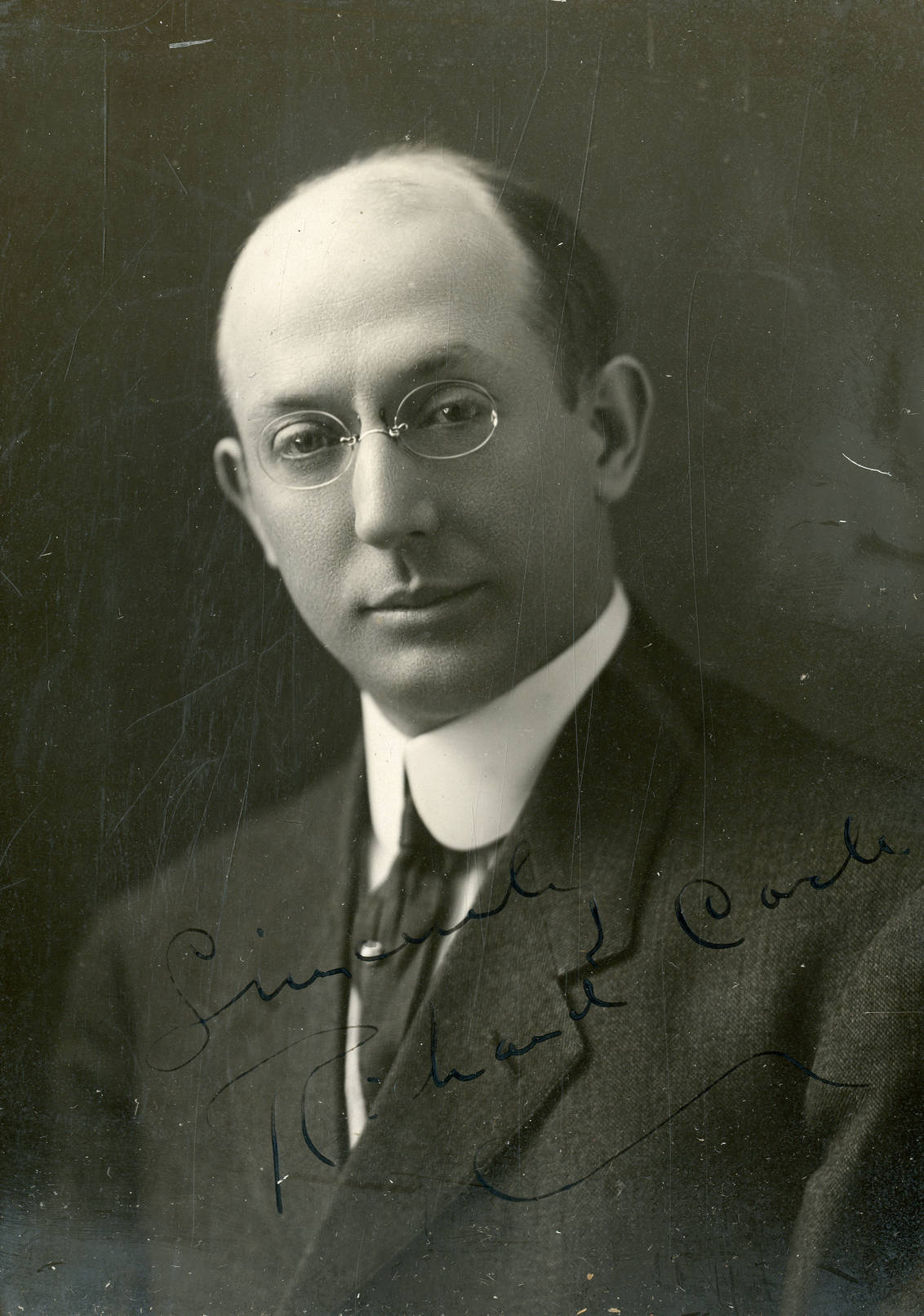 Richard Carle, stage actor Subjects: actors